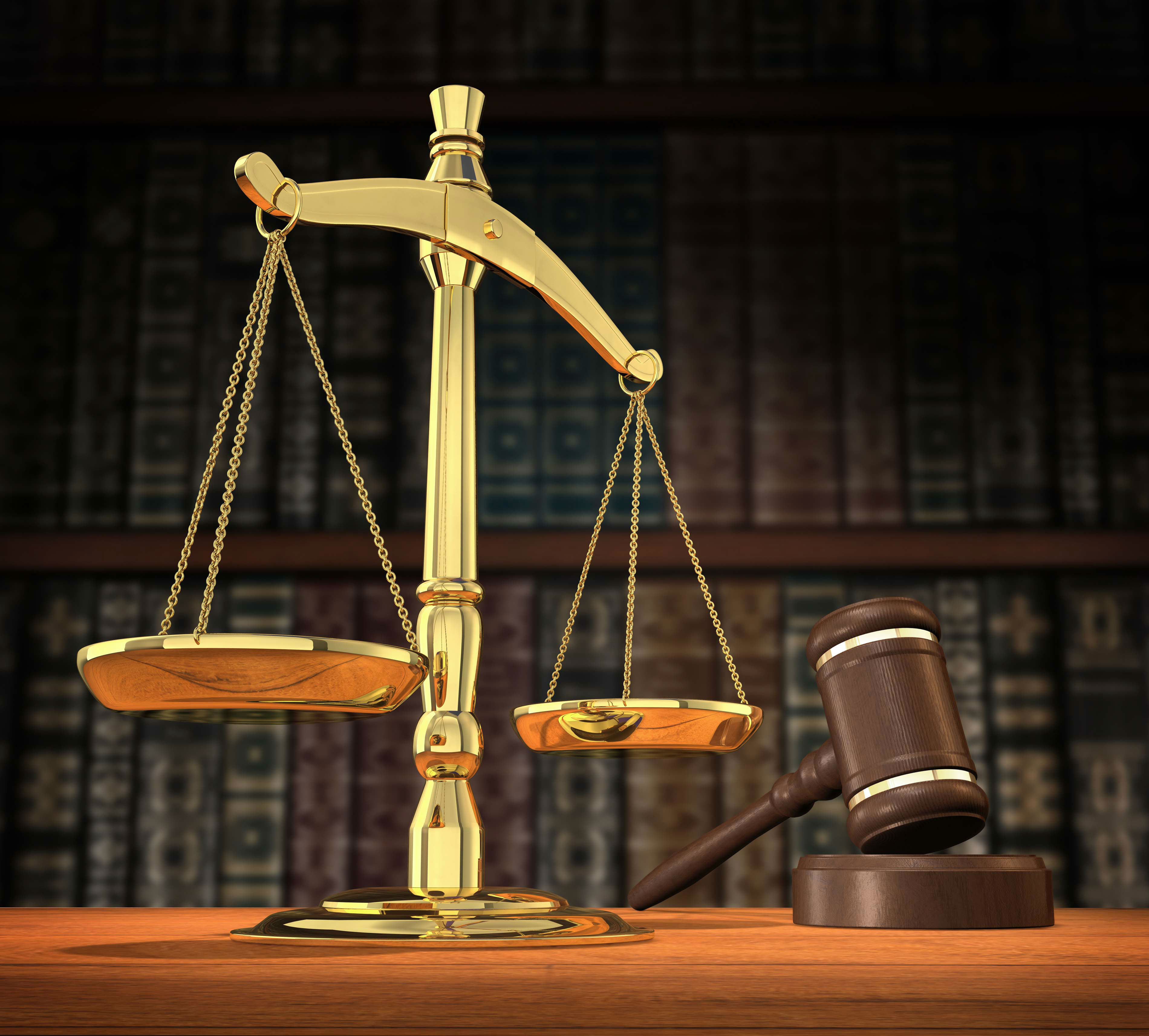 Judiciary logo